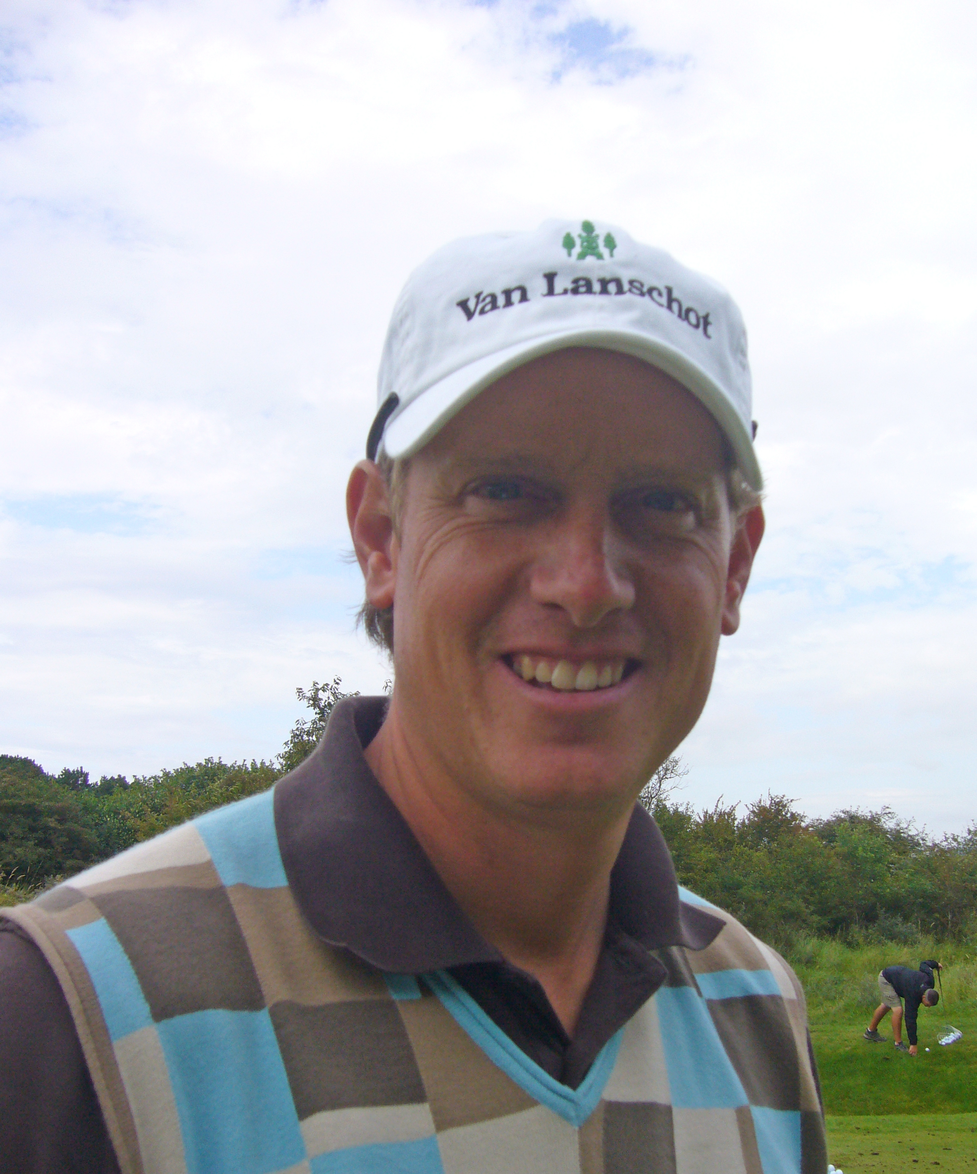 Maarten Lafeber, Dutch golfprofessional